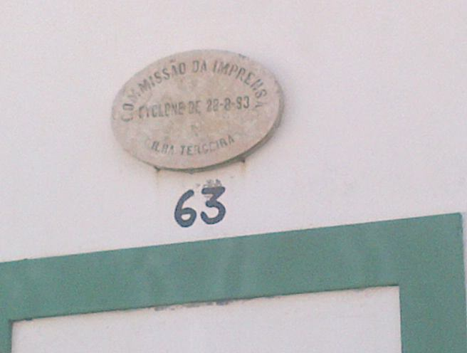 Plate identifying a house rebuilt after the Azores hurricane of 1893. Porto Judeu, Terceira, Azores.